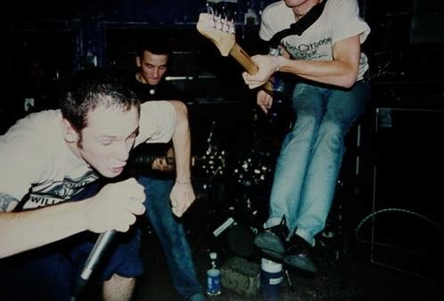 PCH Club 1998 Photo: Graham Donath